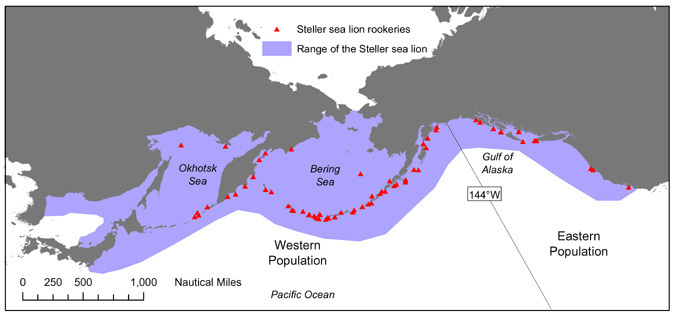 Steller sea lion range